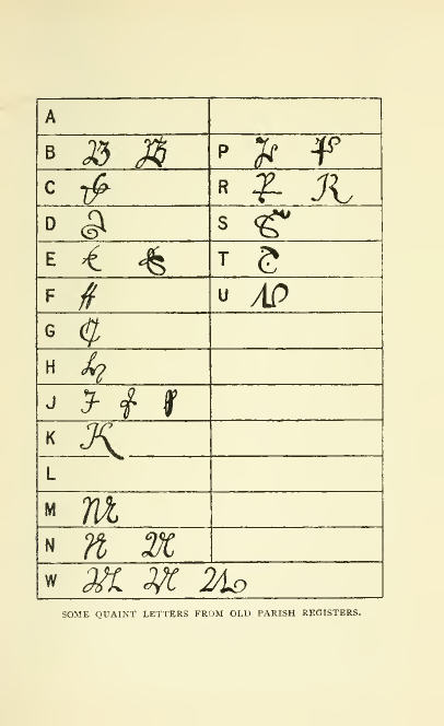 Illustration page 136 "Some quaint letters from old parish registers" from "The key to the family deed chest. How to decipher and study old documents, 1903"